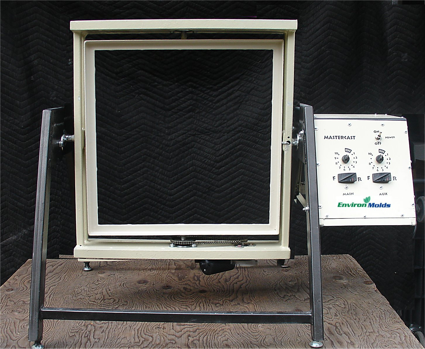 An example of a small rotocasting or roto mold machine